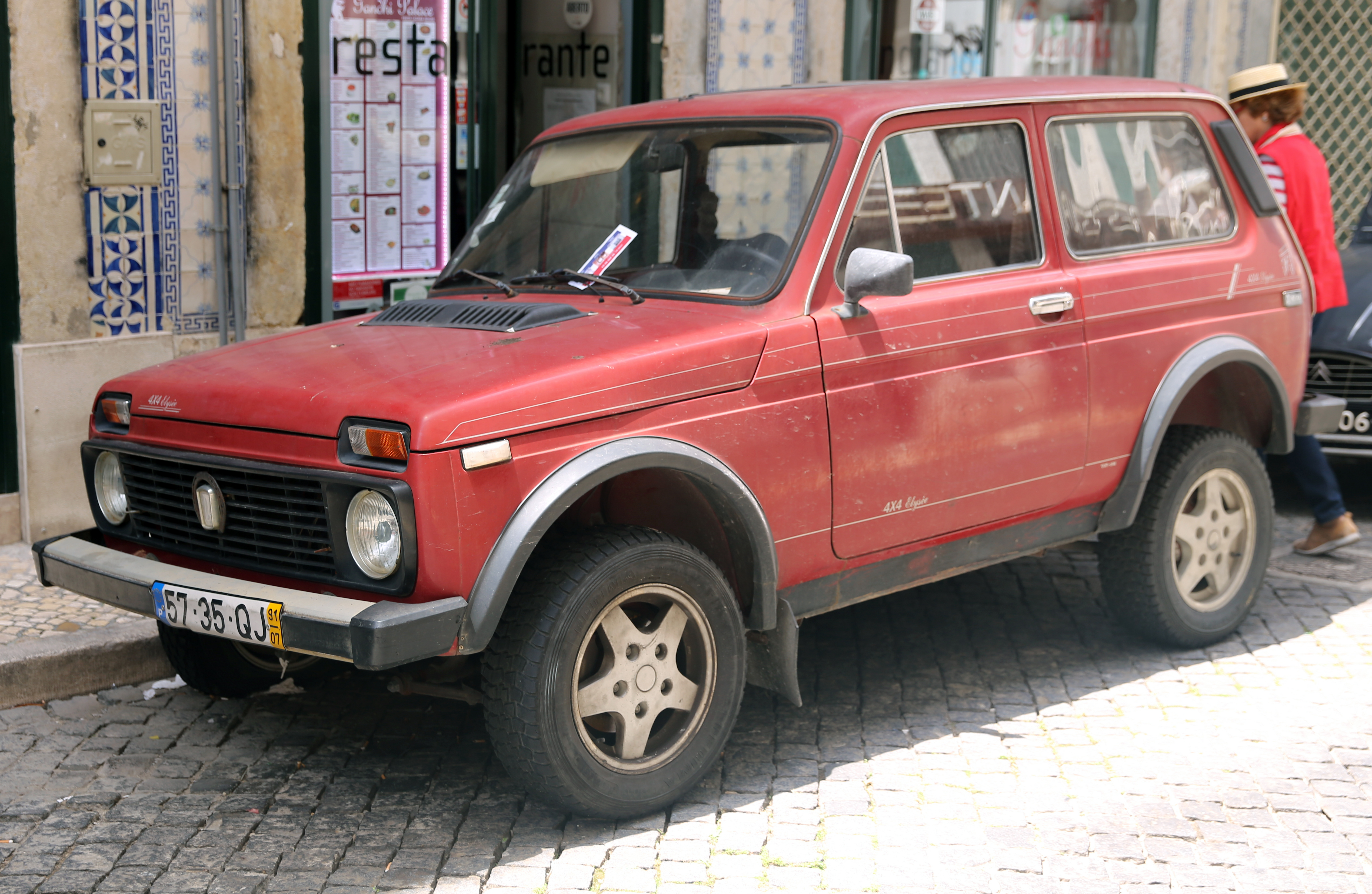 Left side view of a 1991 Lada Niva 1600 4x4 Elysée 5-speed in Lisbon, Portugal. Imported from France, where it seems that concessionnaire Ets Poch's employees had a lot of time on their hands which was mainly spent applying stickers.